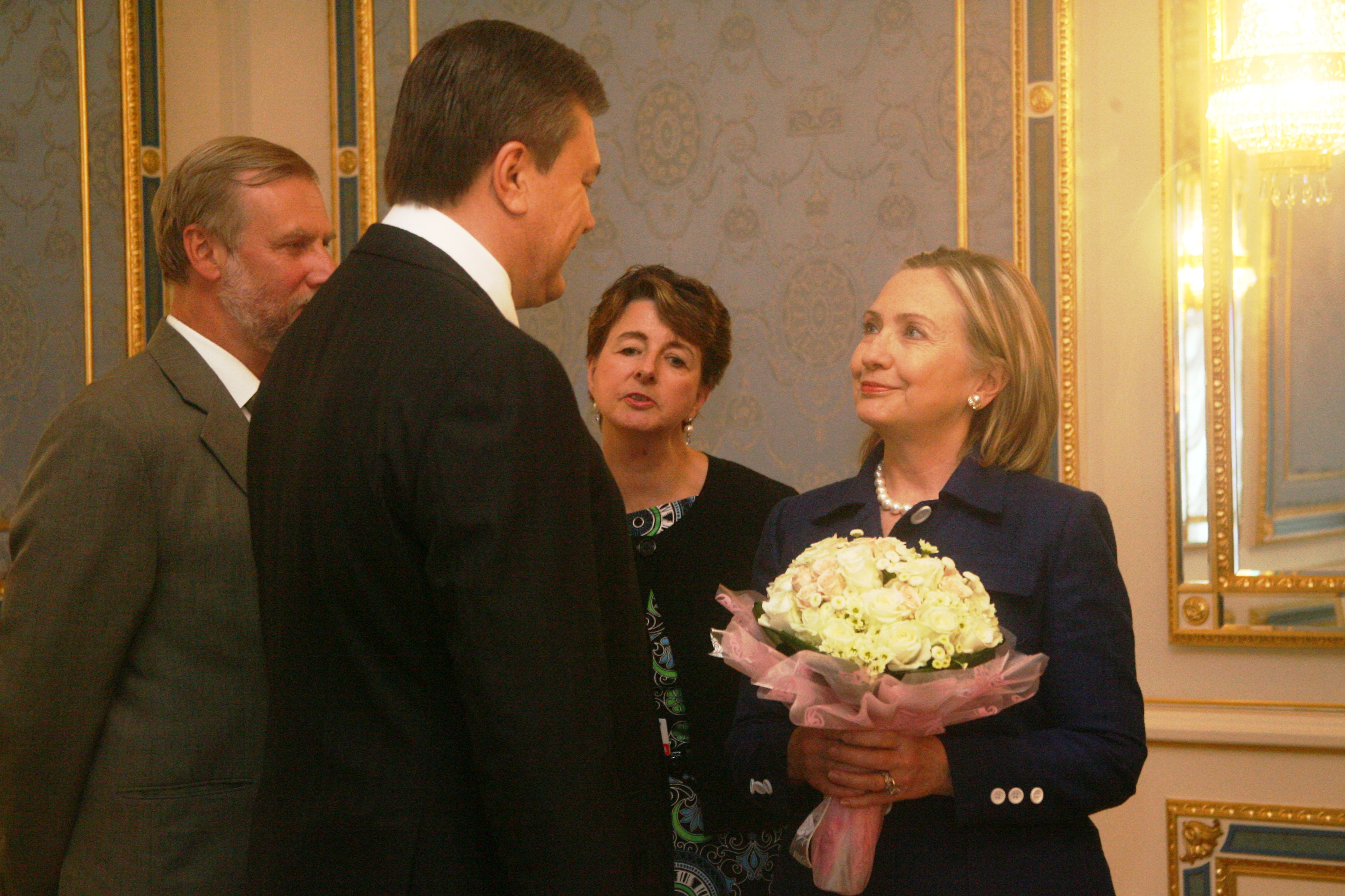 U.S. Secretary of State Hillary Rodham Clinton is greeted by Ukrainian President Viktor Yanukovych in Kyiv, Ukraine, on July 2, 2010. [State Department photo/ Public Domain]